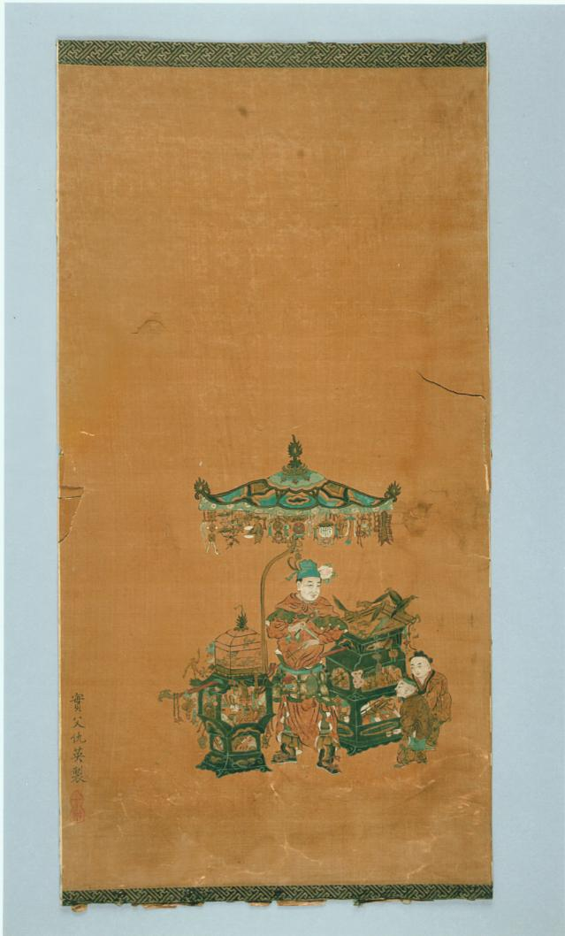 Qui Ying's illustration of the Heart Sutra painted in 1543 for his patron Xiang Yuanbian.